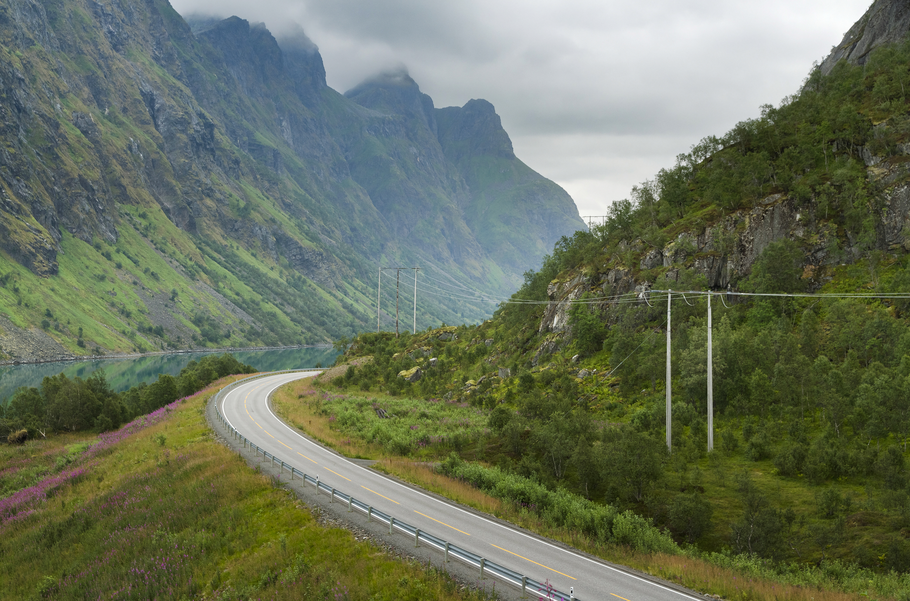 A view from Austneset towards east, Hadsel, Nordland, Norway in 2014 August. The fjord visible on the left is Innerfjorden/Ytterfjorden, a part of Ingelsfjorden. The road below is E10 and also a part of the Lofast shortcut route to Lofoten archipelago which was officially opened in 2007.